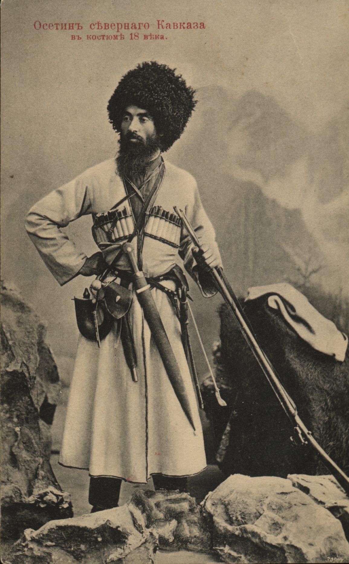 Ossetian Northern Caucasia dress of 18 century, Ramonov Vano (19 century)